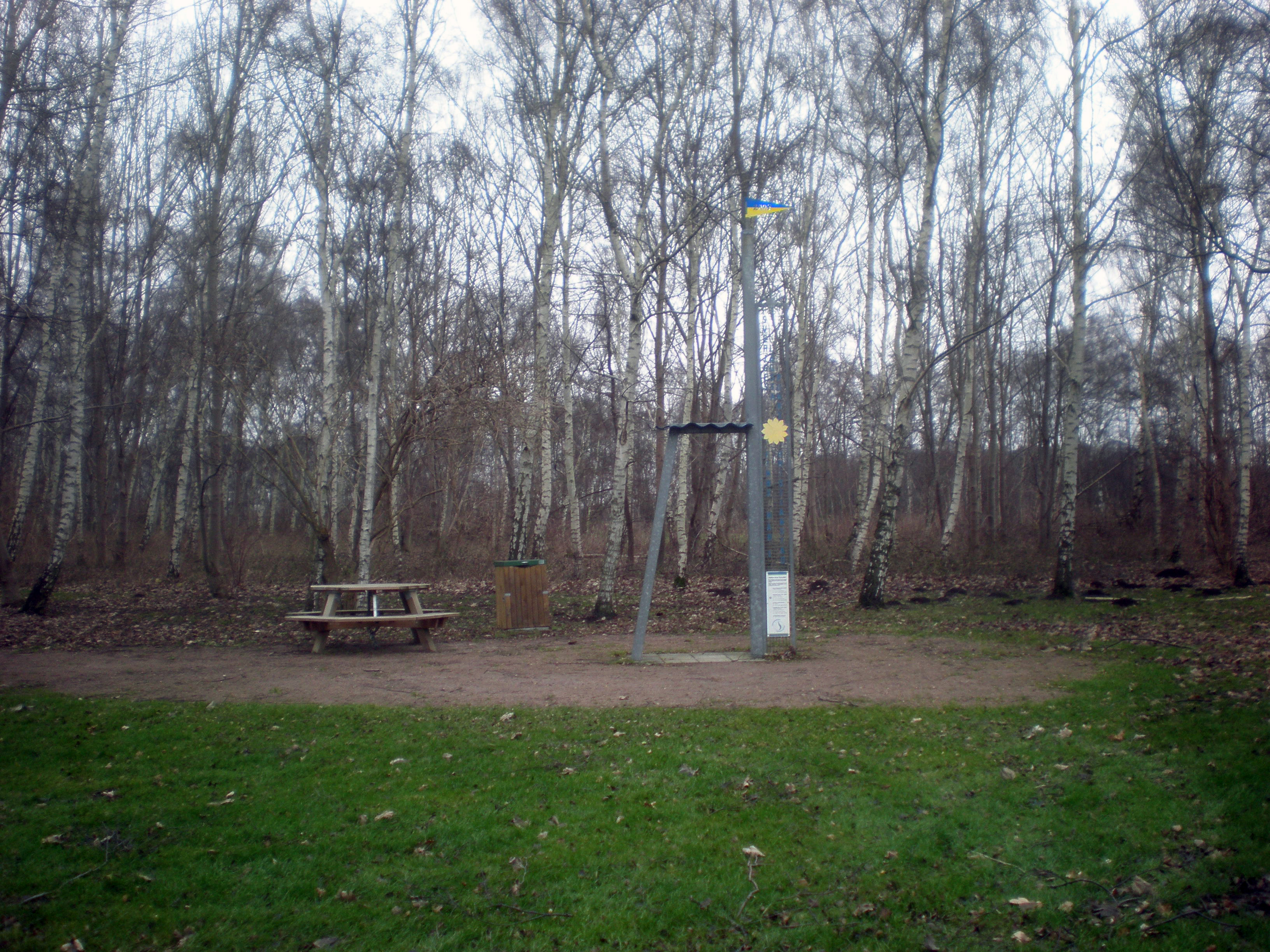 The recognized lowest point in Sweden, just outside the city of Kristianstad (Christianstad). Elevation: -2.41 m.